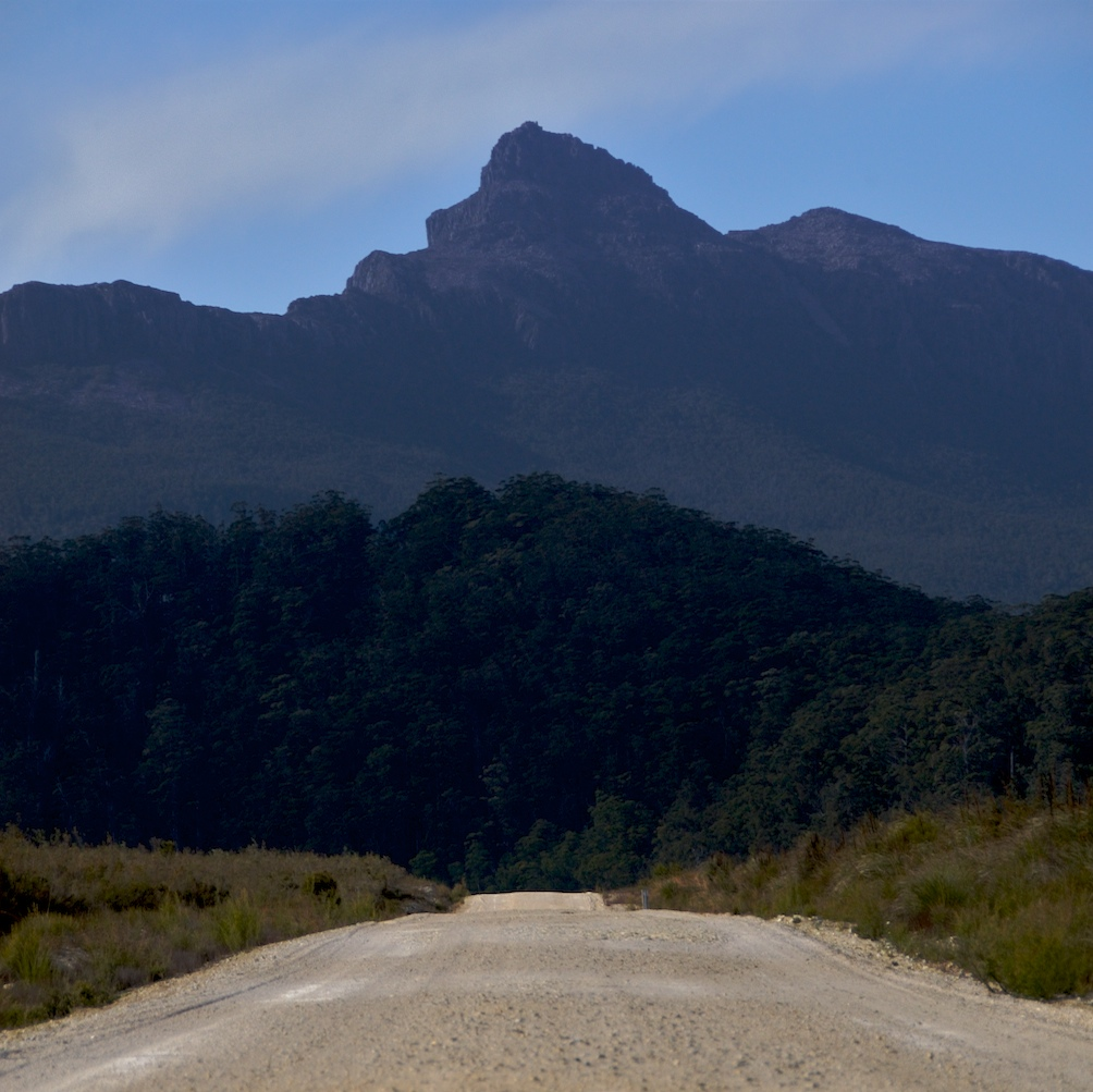 Mount Anne in South West NP, Tasmania